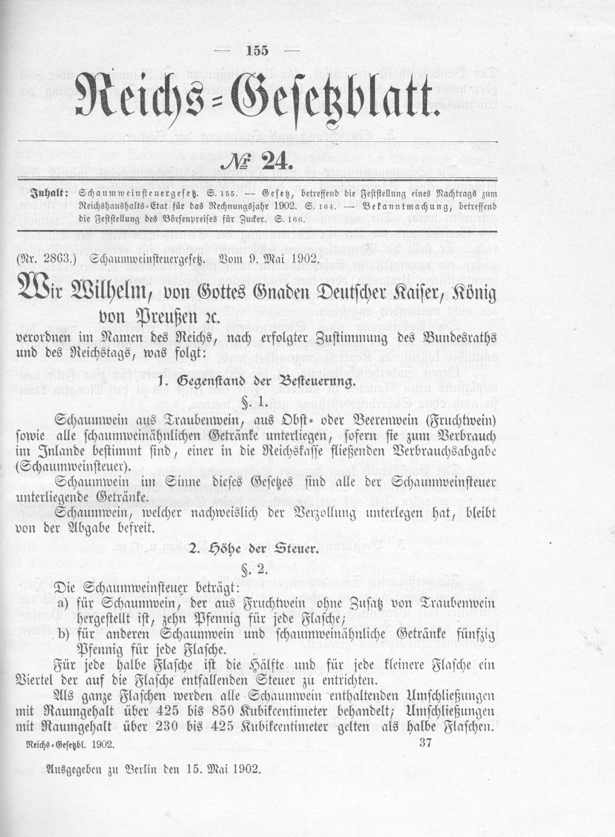 Scan from the Imperial Law Gazette of Germany, 1902